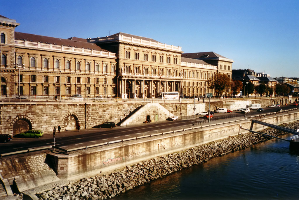 Corvinus University of Budapest, Main Building. Also called Chief Customs Palace or "Fővámpalota" for historical reasons